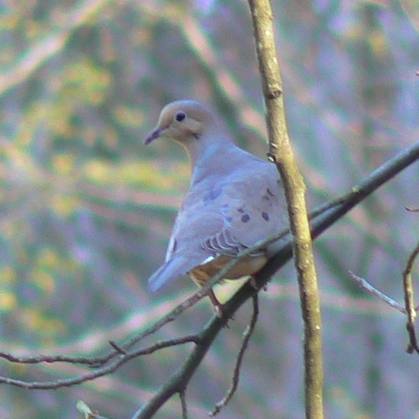 A mourning dove perched on a tree limb in Kentucky, April 17 2007.